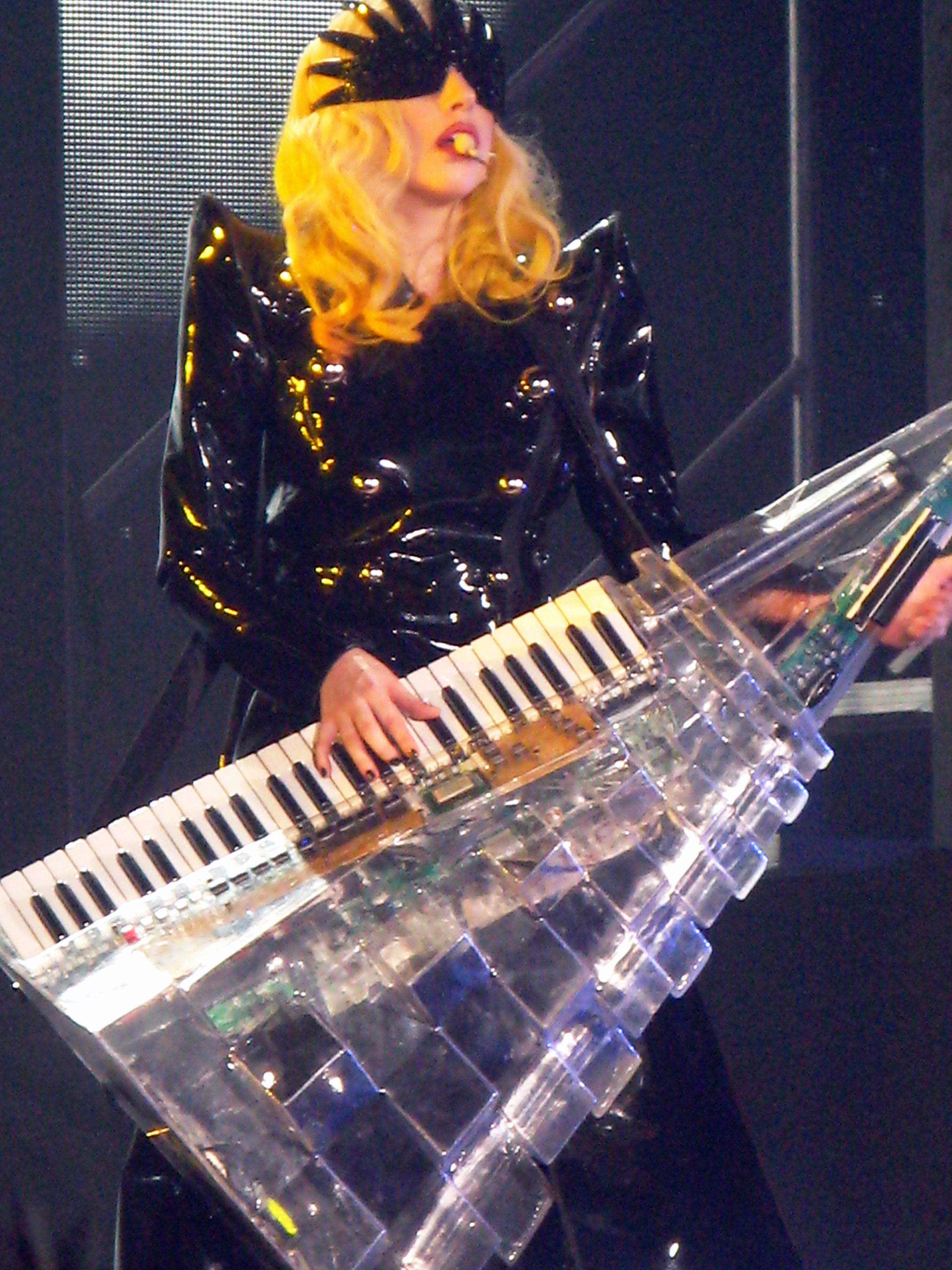 Gaga performing "Money Honey" while holding a keytar